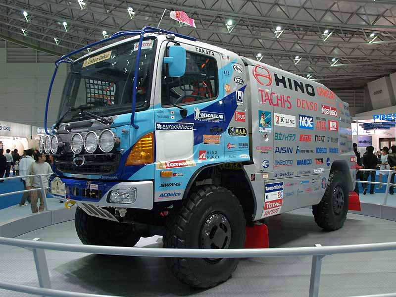 Hino Ranger FT AWD for Dakar Rally, displayed in 2007 Tokyo Motor Show. Engine: J08C (turbocharged, maximum output: 260PS) Drivers Car No.1: Yoshimasa Sugawara Car No.2: Teruhito Sugawara (son of Yoshimasa)